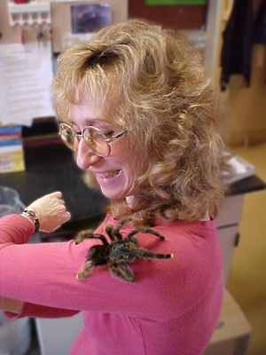 Sy Montgomery with a tarantula.